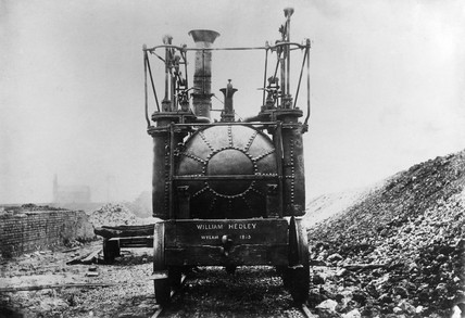 Front of Steam locomotive Wylam Dilly